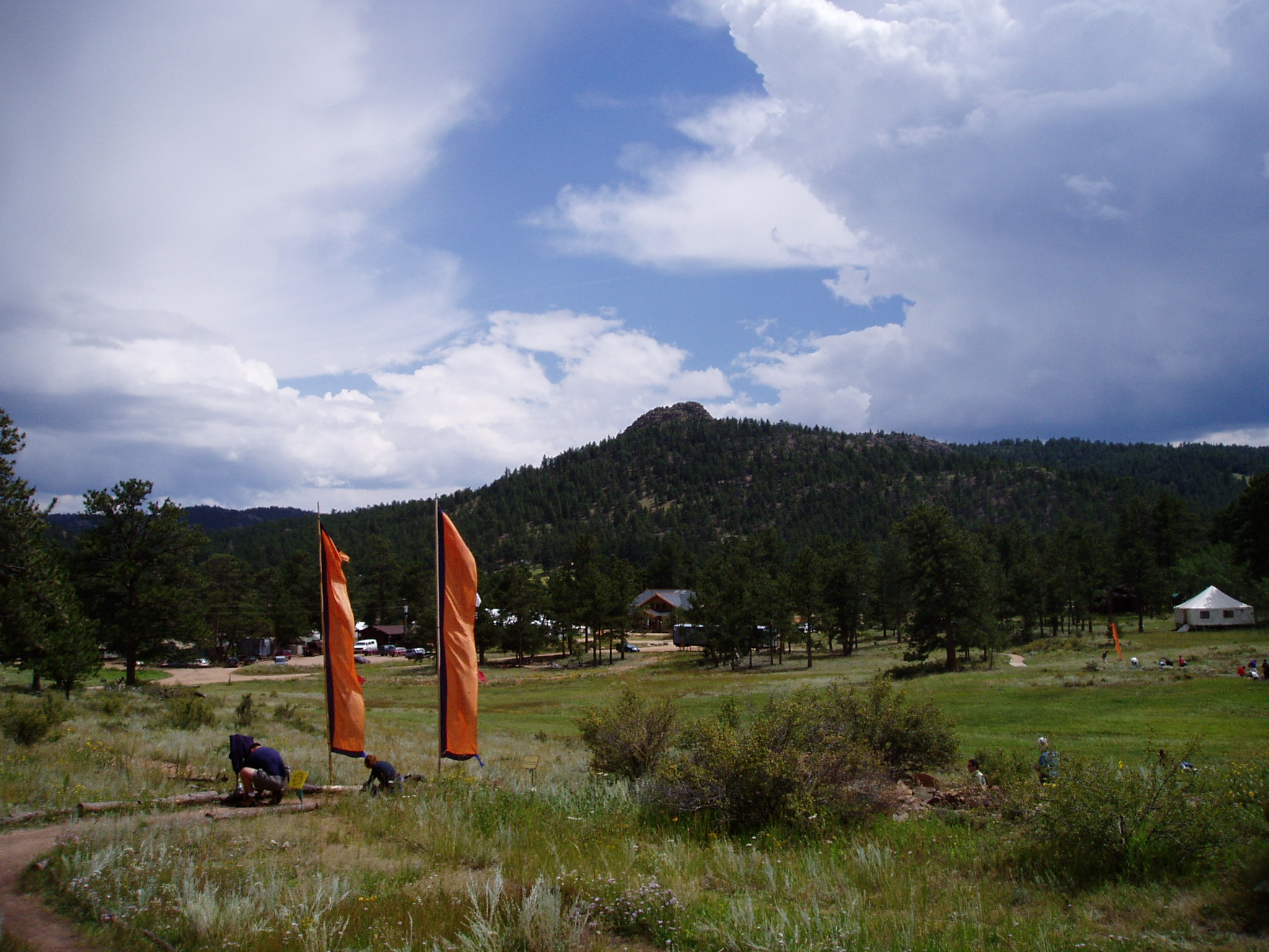 Shambhala Mountain Center, taken by Michael Zimmer (user) in August, 2004